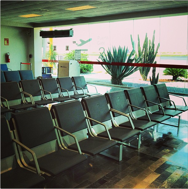 Sala de ultima espera REX